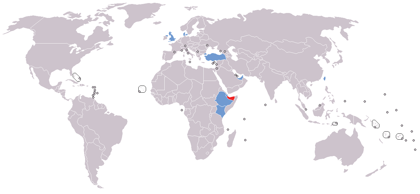 Map of diplomatic missions in Somaliland Somaliland States with embassy in Somaliland (none) States with representative office or consulate in Somaliland States with non-resident embassy in Somaliland (none) Disputed region